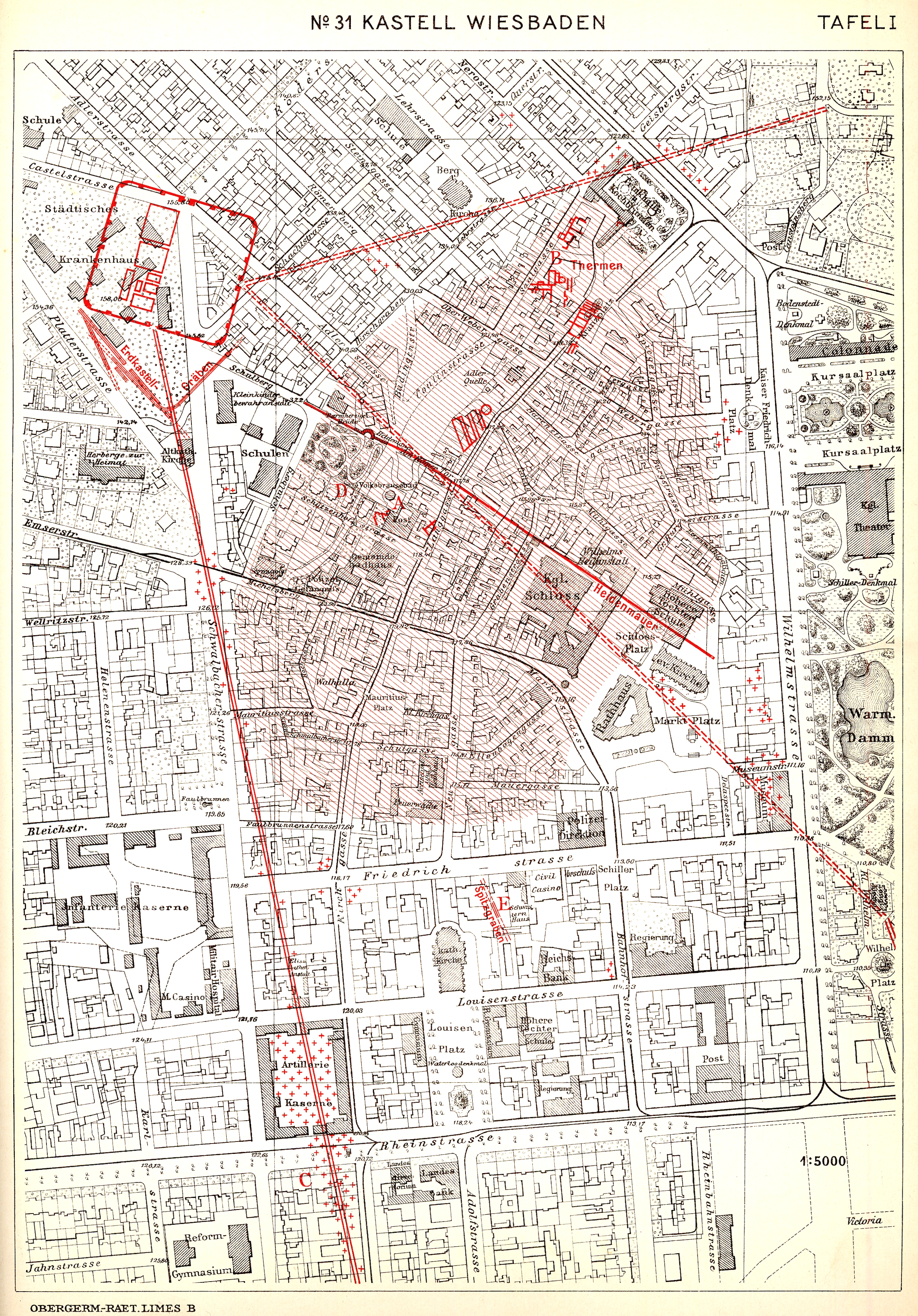 Plan of Wiesbaden in Roman Times.